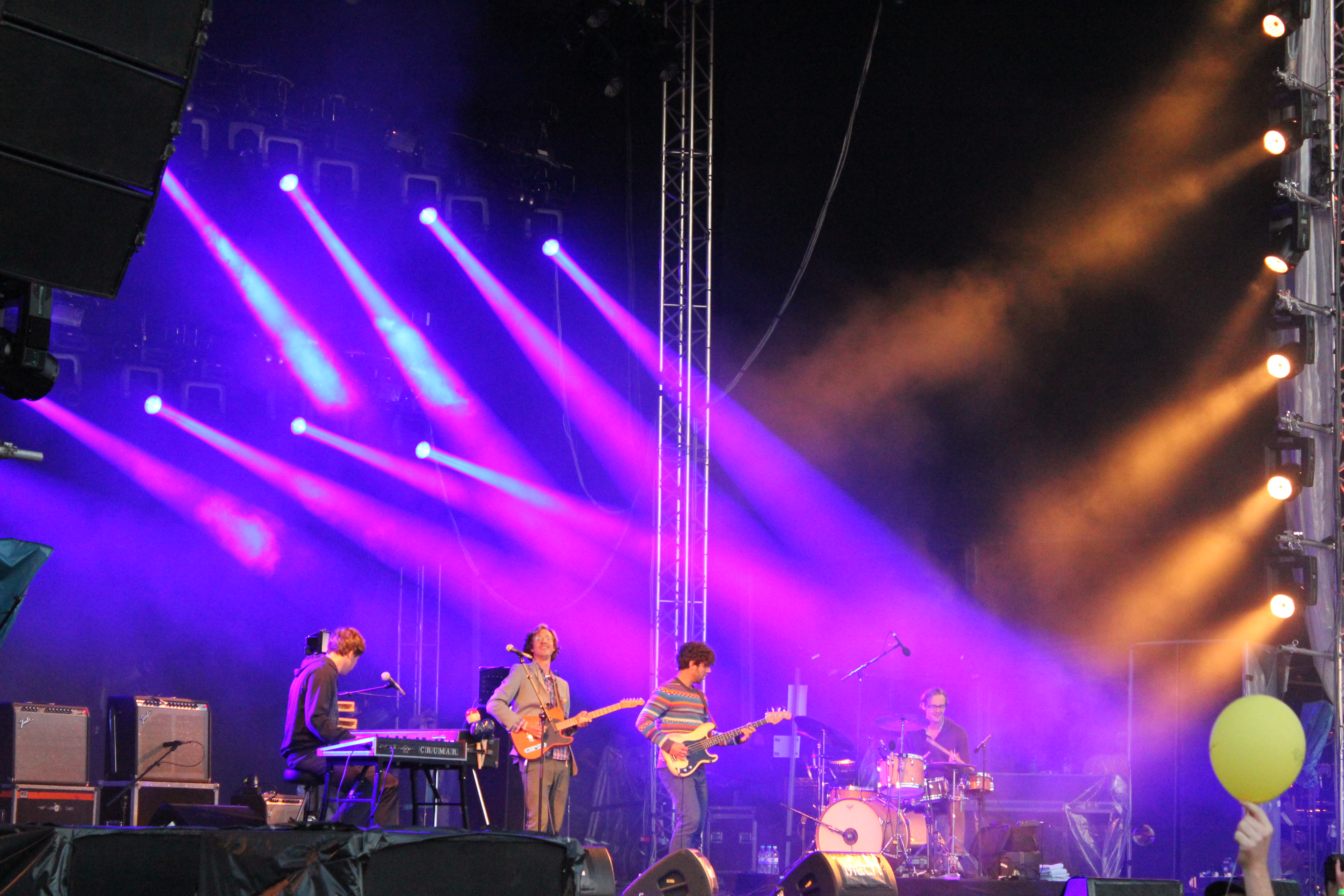 The Whitest Boy Alive at Melt! Festival in Ferropolis, Gräfenhainichen Germany, July 15, 2012.